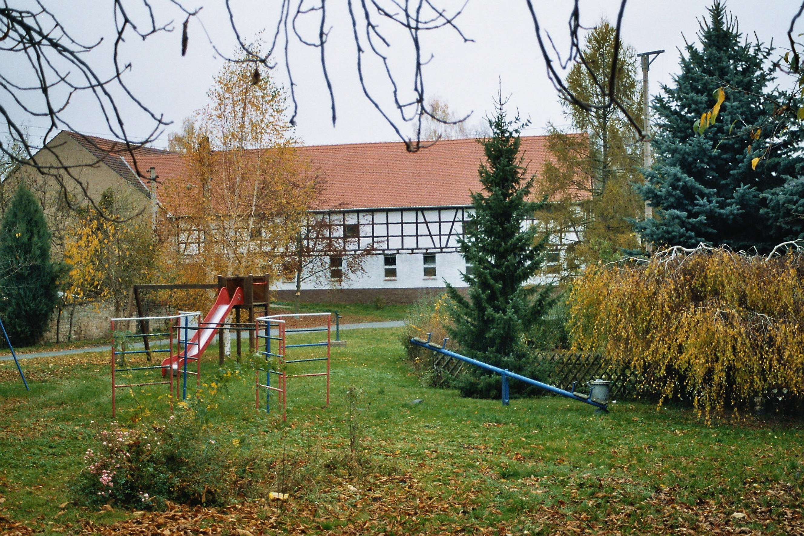 Frankendorf (Thuringia), village green, farmstead and children´s playground